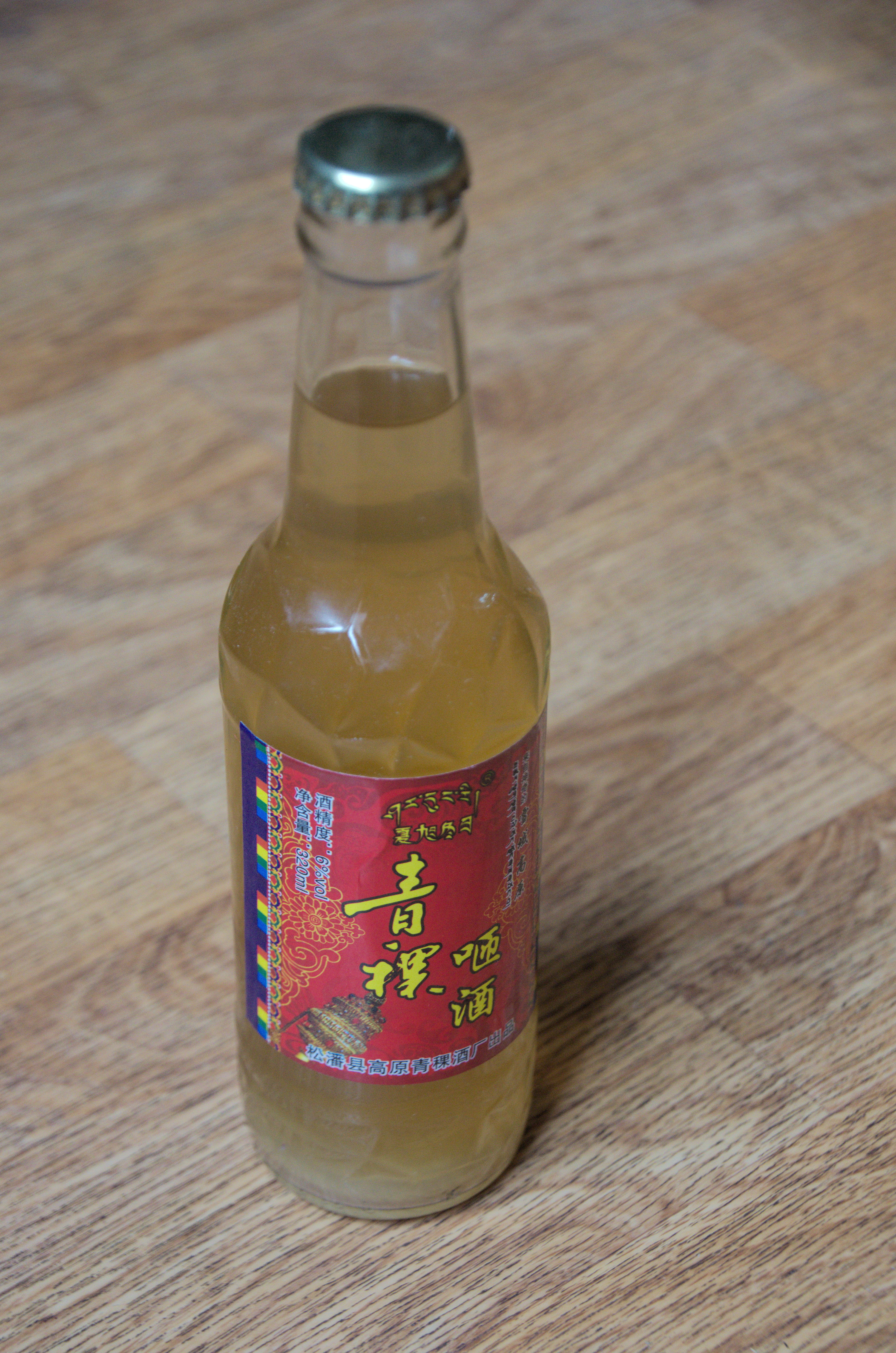 Highland barlay alcool (青课咂酒), taste near from beer, 6 % alcohol, sold and manufactured in Songpan County a similar brevage can be bought at Jiuzhaigou County, both in Ngawa Tibetan and Qiang Autonomous Prefecture, Sichuan province.